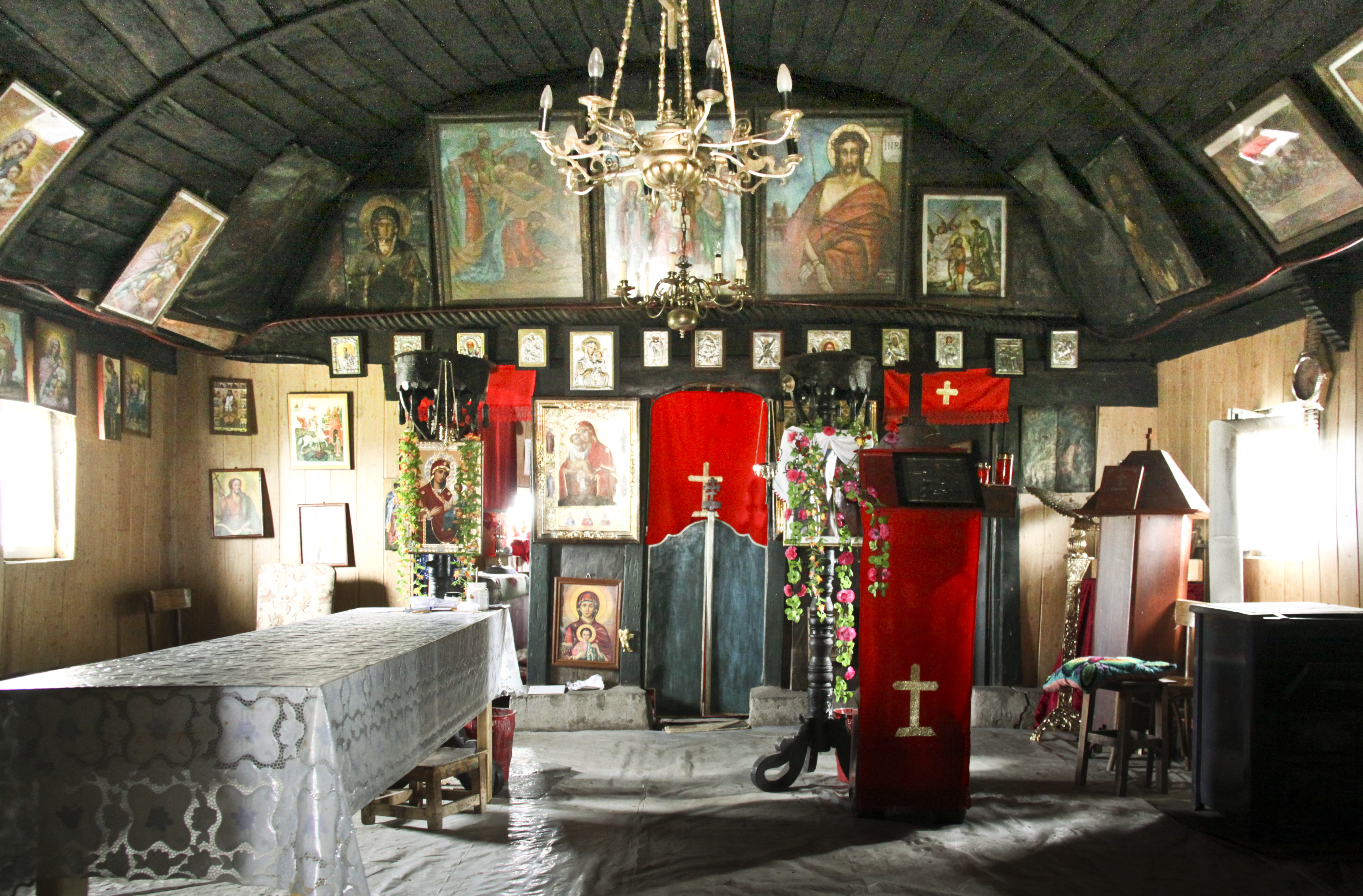 Buteşti, Teleorman county, Romani: the wooden church.